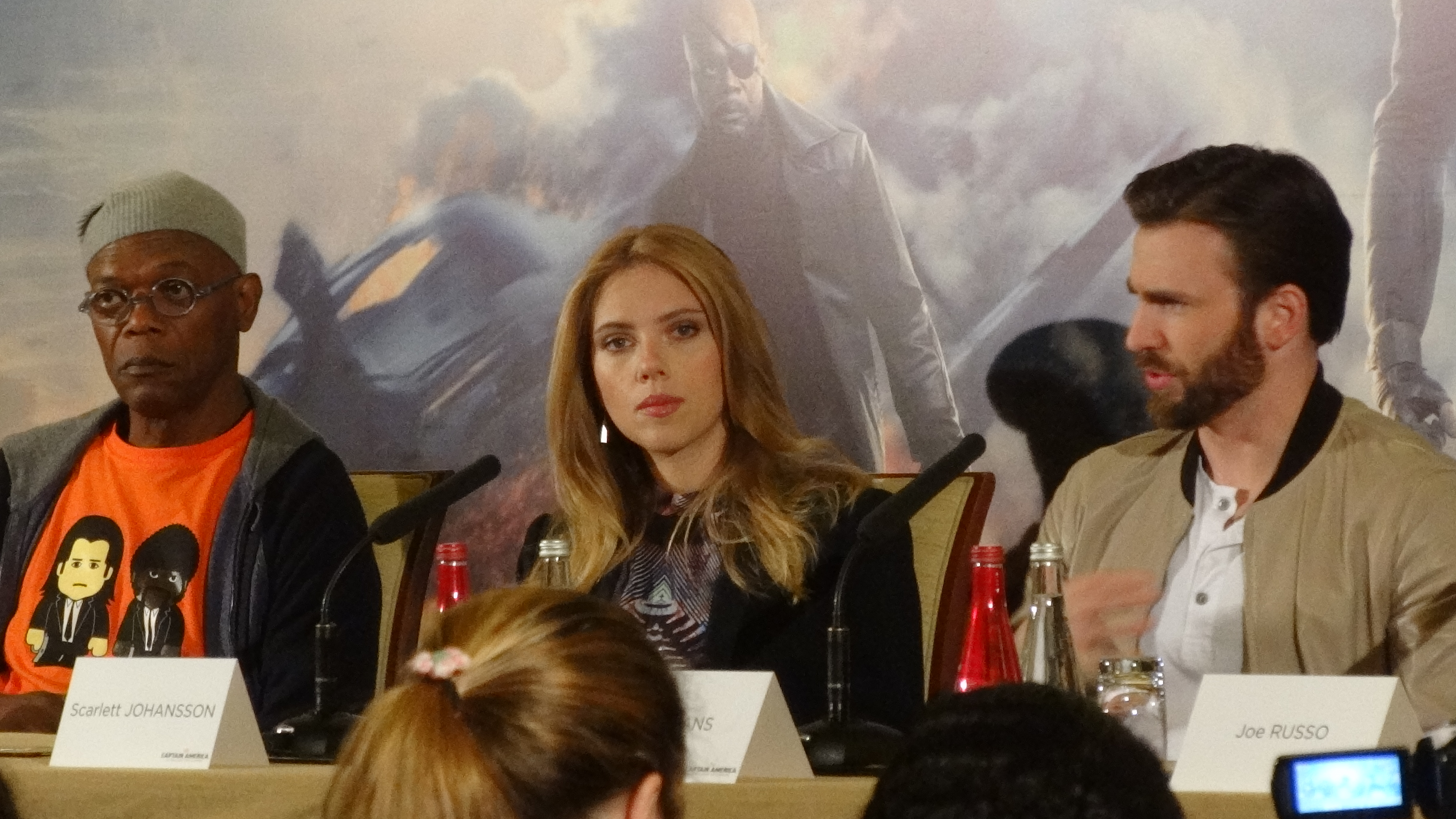 Captain America: The Winter Soldier Press Conference in March 2014.